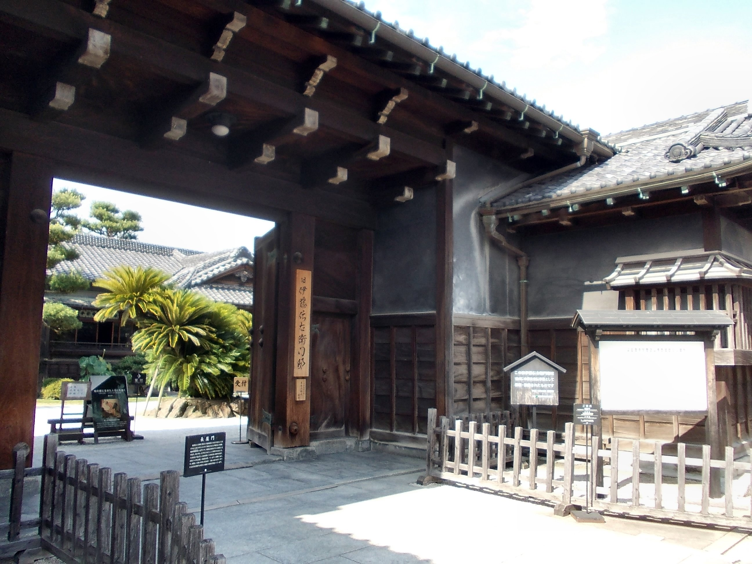 A gate of the Old Ito Den-emon Residence, Iizuka, Fukuoka, Japan